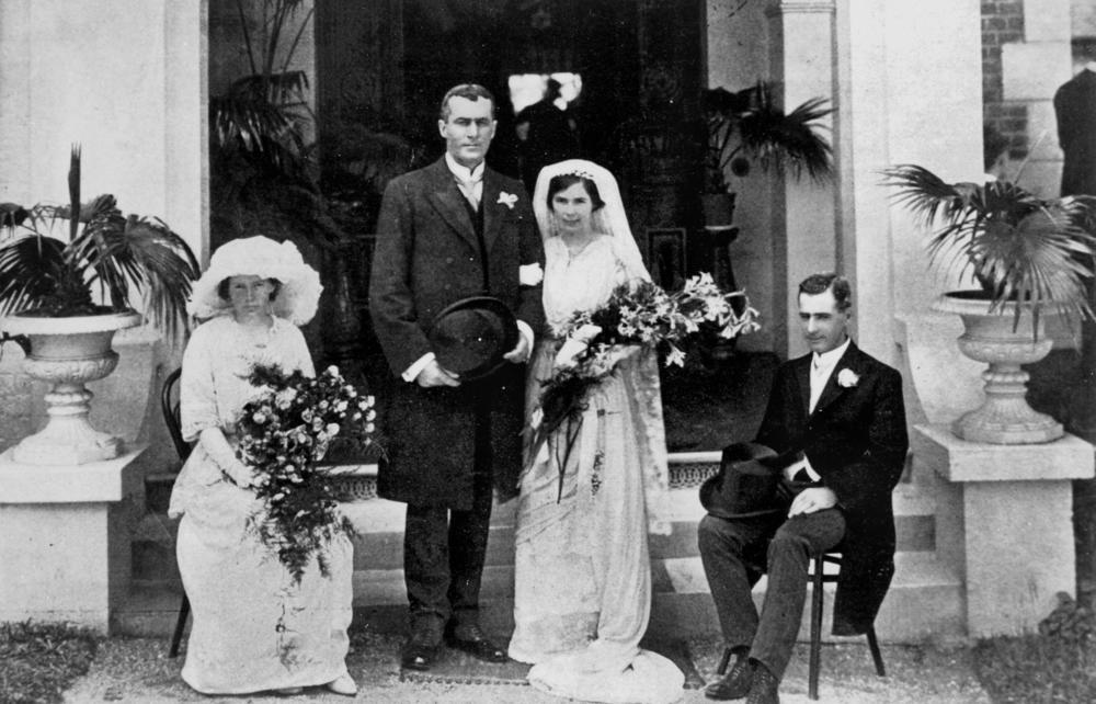 Wedding party of Henry and Catherine Douglas. Henry Douglas married Catherine Cecilia Beirne. February 1914. The photograph includes the best man and bridesmaid seated with the newly married couple.